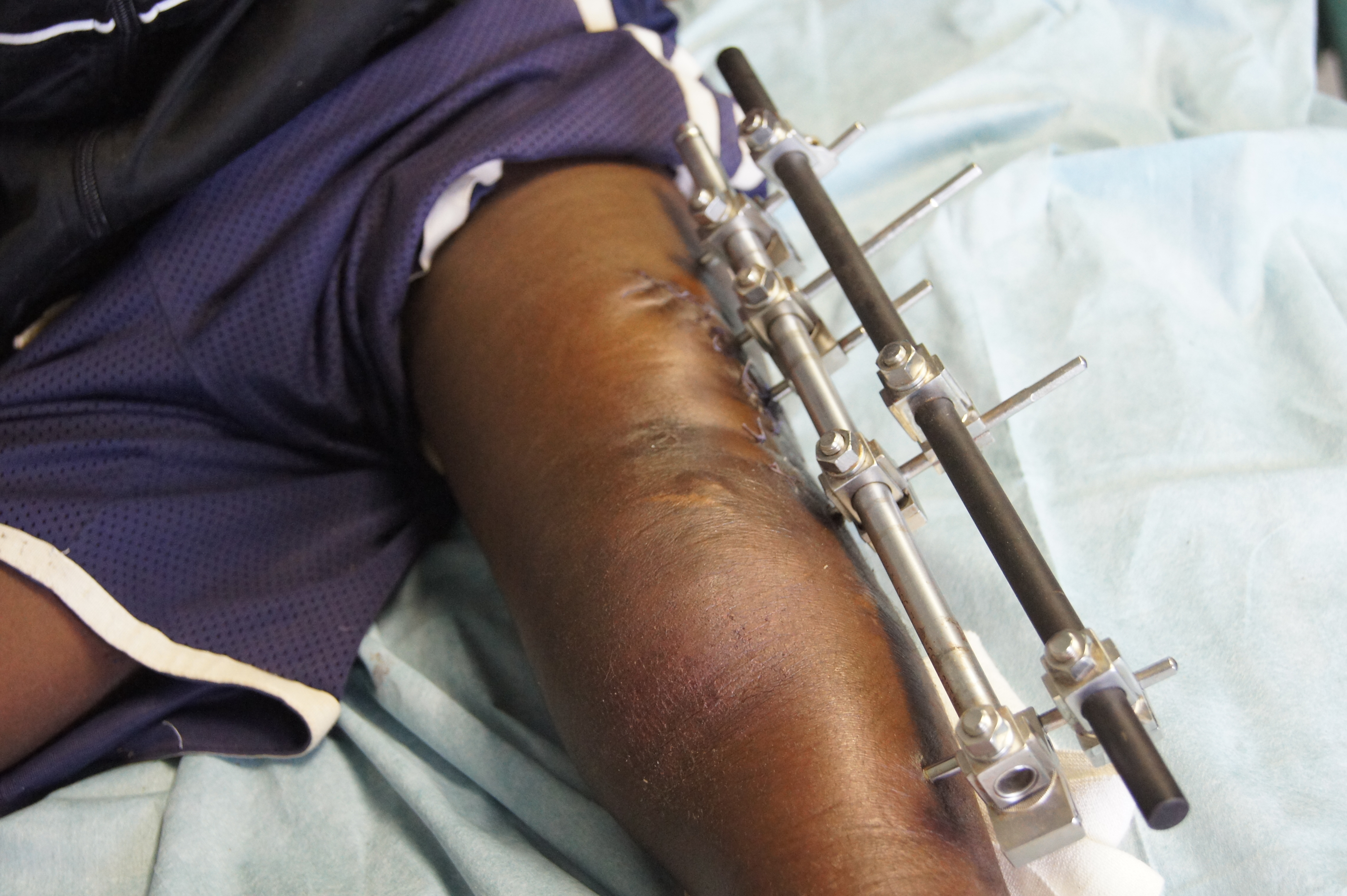 Patient with external fixator in Angola This is an image with the theme "Africa on the Move or Transport" from: Angola